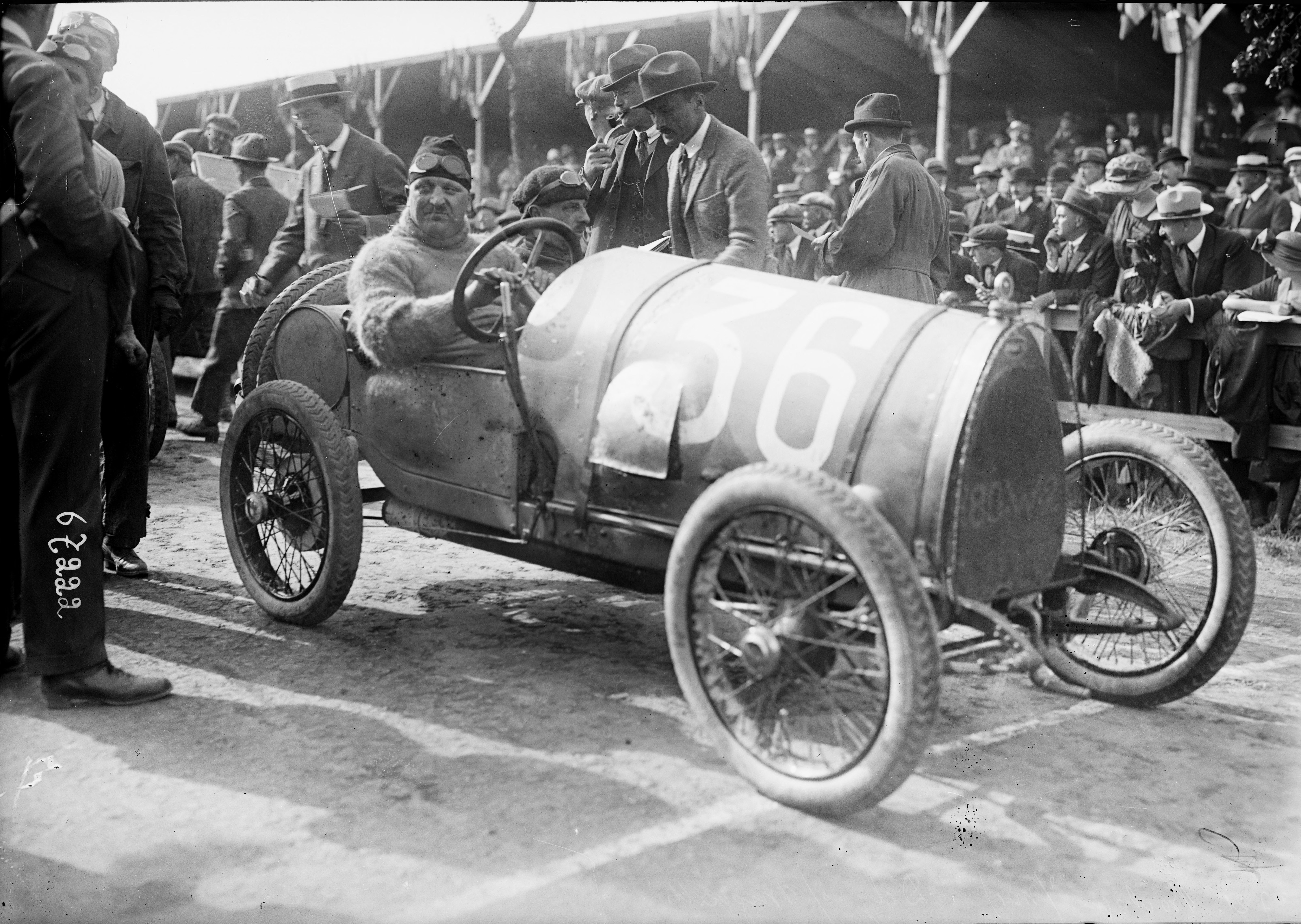 René Dely at the 1921 Boulogne Grand Prix.